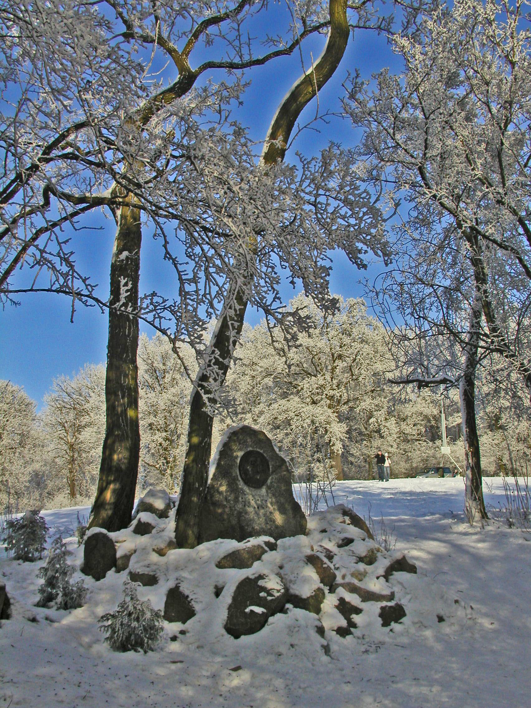 Momument of Karl von Holtei in Oborniki Śląskie (Poland)